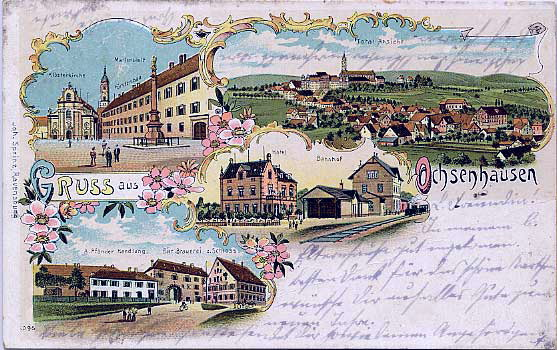 Ochsenhausen germany Postcard from 1900